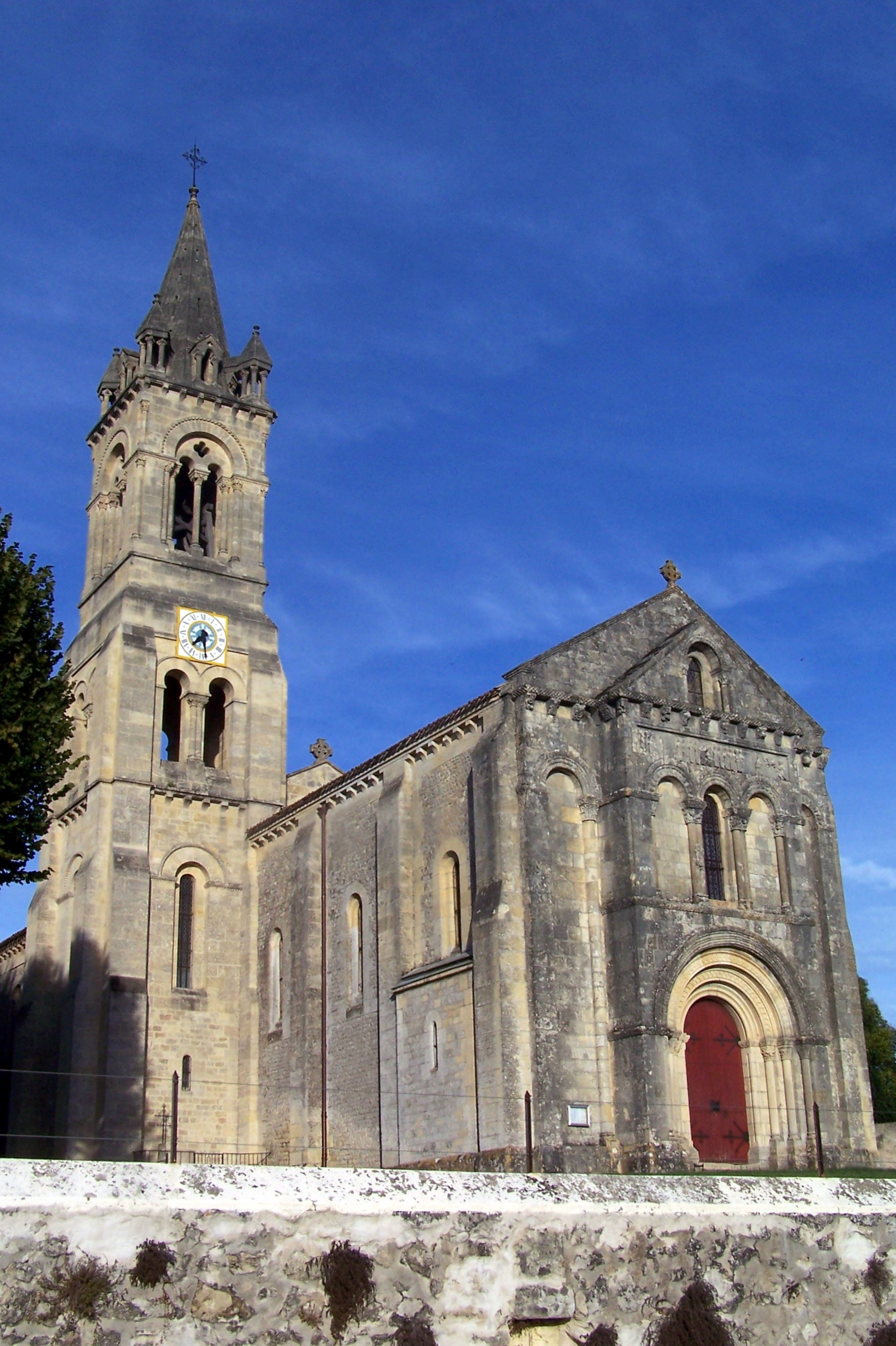 Church Saint-Pierre of Loupiac (Gironde, France)